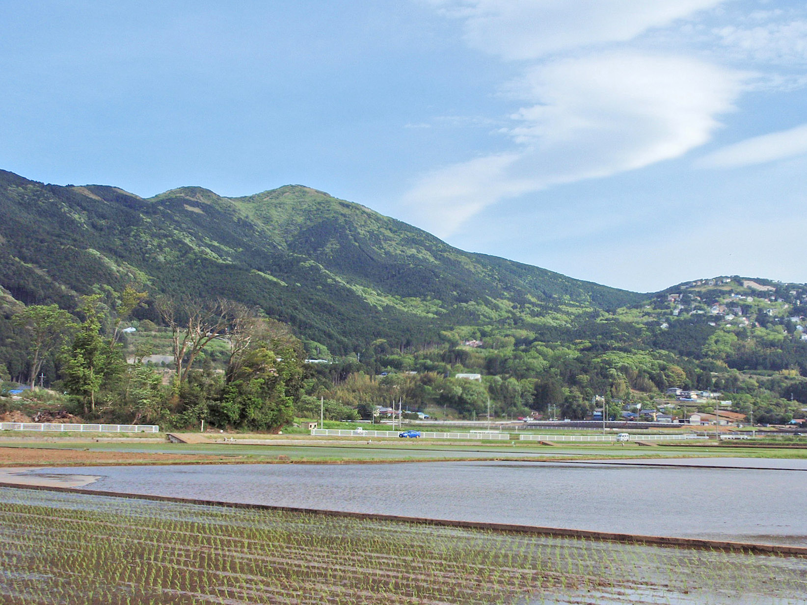 Mount Kurotake as seen from the NNW in Izu Peninsula, Shizuoka Prefecture, Japan. Shot at Tanna Basin.